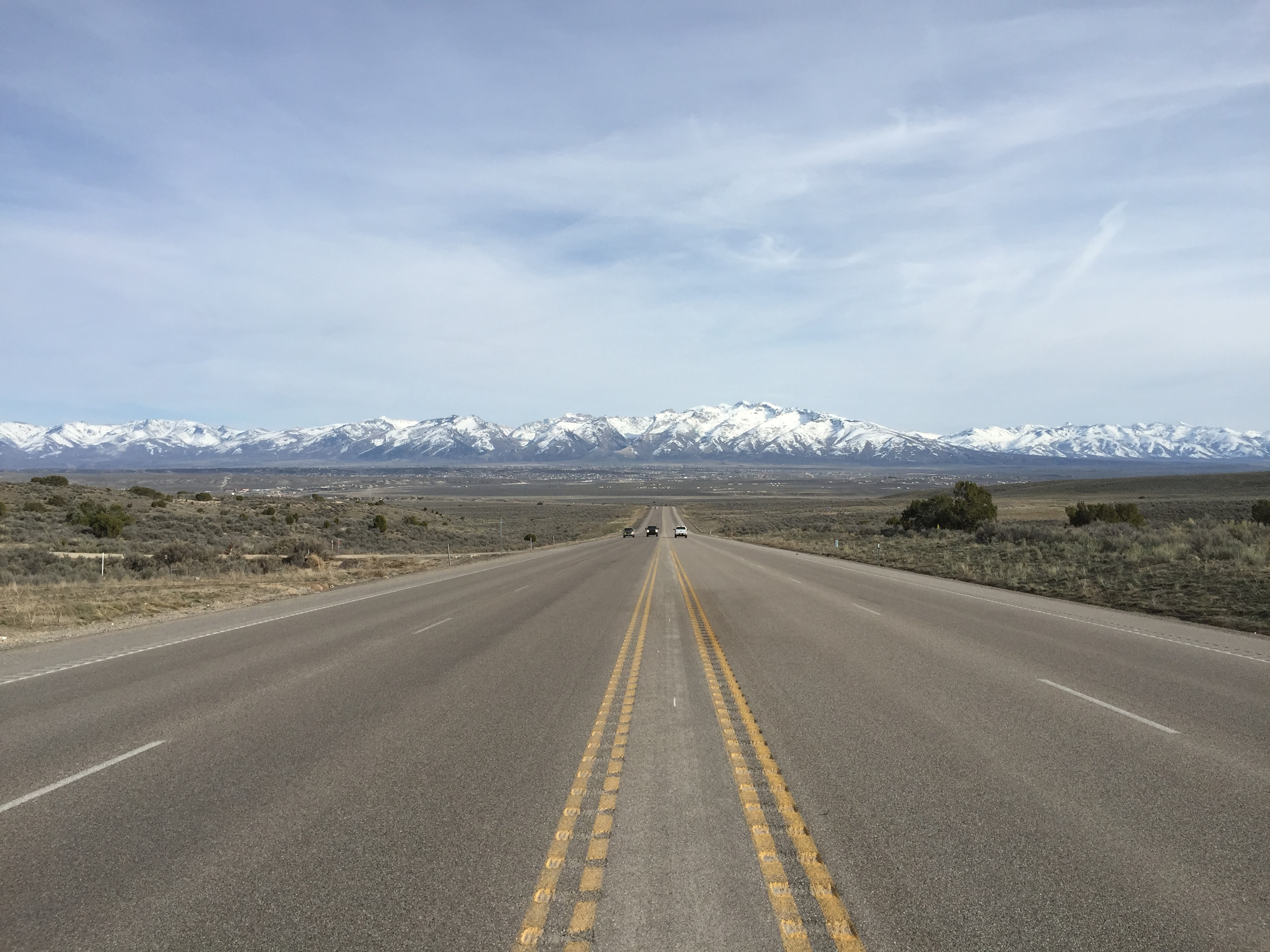 View southeast along Nevada State Route 227 (Lamoille Highway) about 4.9 miles southeast of Nevada State Route 535 (Idaho Street) in Spring Creek, Nevada